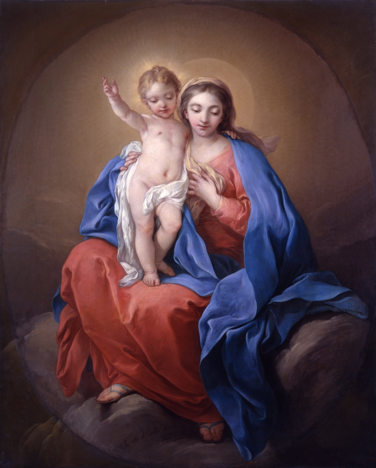 Virgin and Child